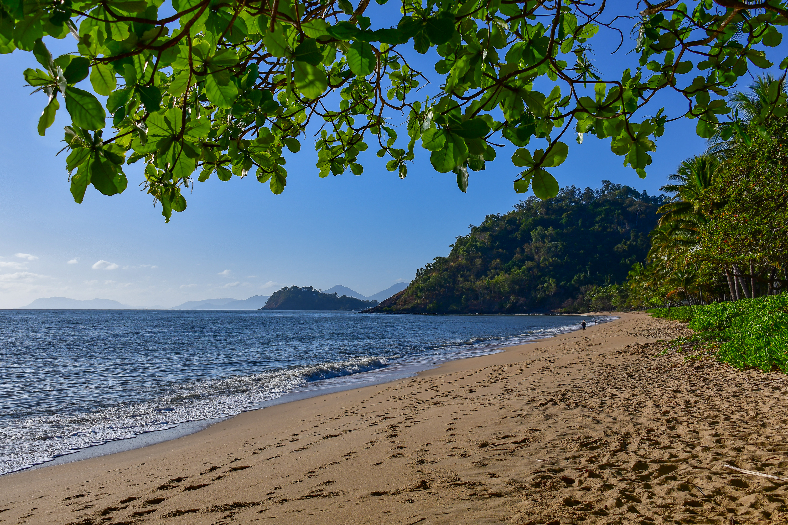 Sunny September afternoon looking south along Trinity Beach